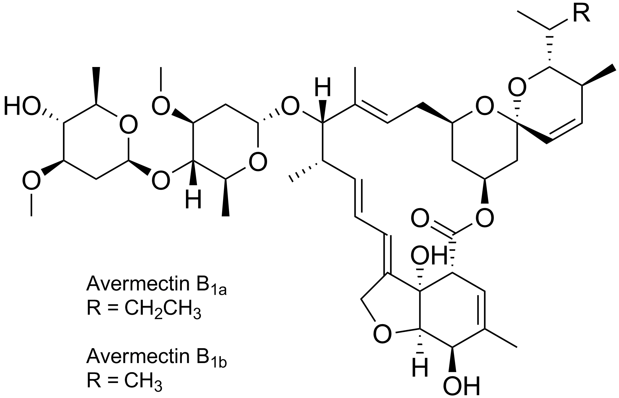 chemical structure of avermectin B1a and B1b